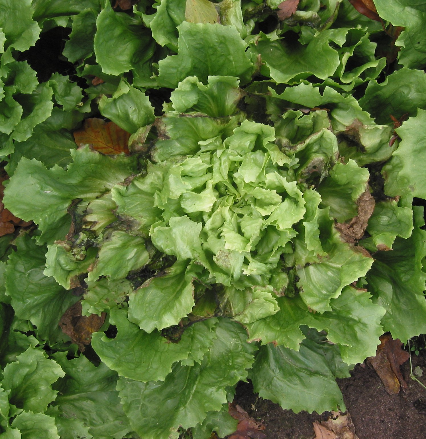 Cichorium endivia